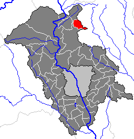 This map shows the area of the Gemeinde (municipality) Tulwitz in the Bezirk (district) Graz-Umgebung, Styria, Austria.